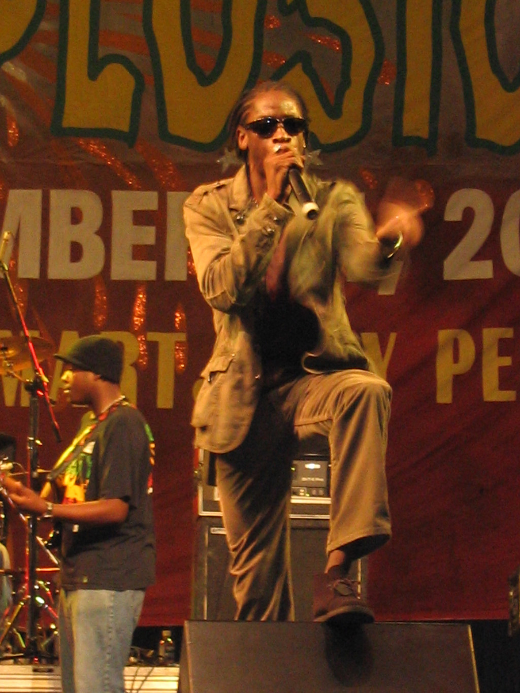 Bounty Killer performing at Island Explosion